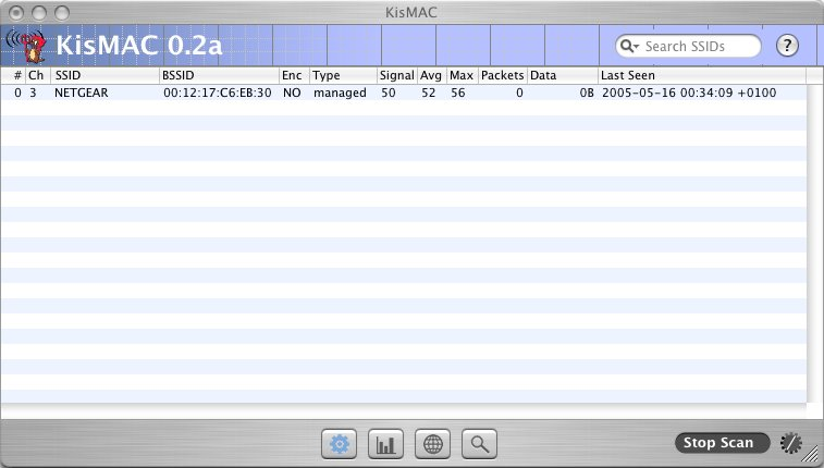 from english wikipedia